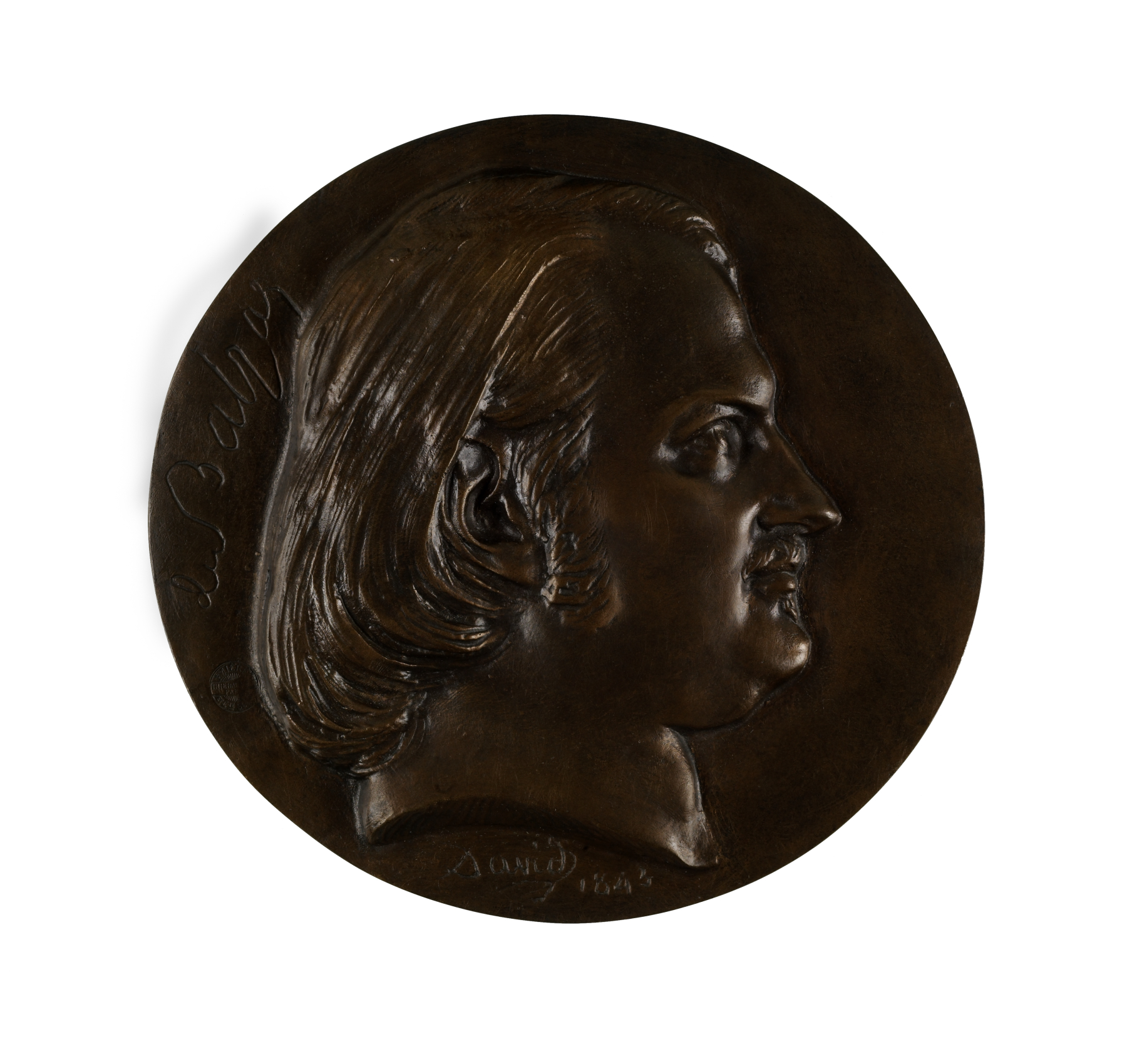 Honoré de Balzac (1799-1850) worked as a typefounder, printer, and editor before achieving fame as a writer with "Le Dernier chouan" in 1829. The creator of the realistic novel, he is considered France's greatest novelist.